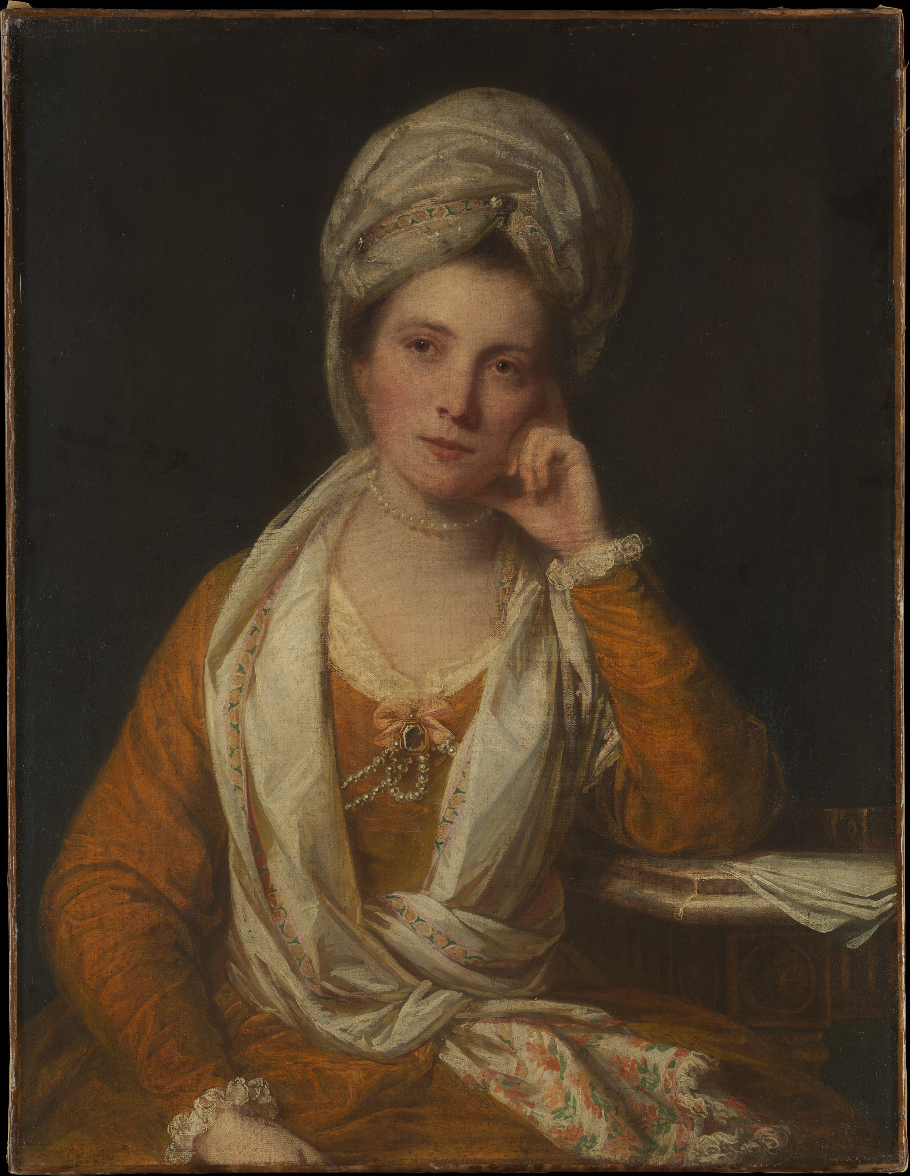 Anne/Nancy Parsons aka Mrs. Horton, Later Viscountess Maynard (c.1735 – 1814/5)